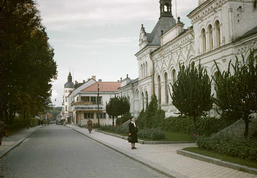 Lindesberg court house, created by architect Theodor Dahl, inaugurated in 1895. Today a block of flats. Lindesbergs tingshus, skapat av arkitekten Theodor Dahl, invigt 1895. Idag ett hyreshus. Parish (socken): Lindesberg Province (landskap): Västmanland Municipality (kommun): Lindesberg County (län): Örebro Photograph by: Fredrik Bruno Date: 1950 Format: Colour slide See a recent photo of the same view: Persistent URL: Read more about the photo database (in english)